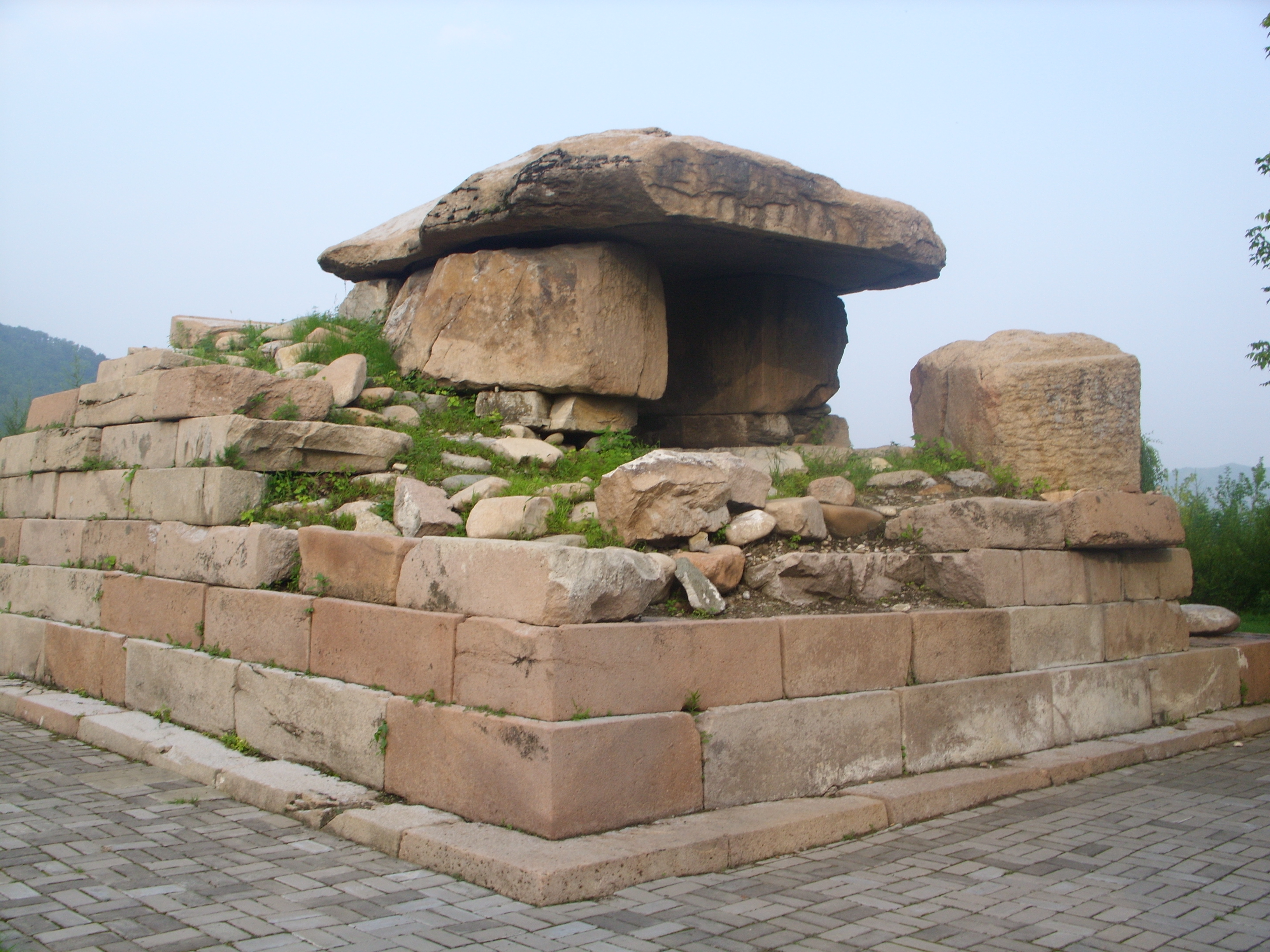 King Jangsu's royal concubine tomb